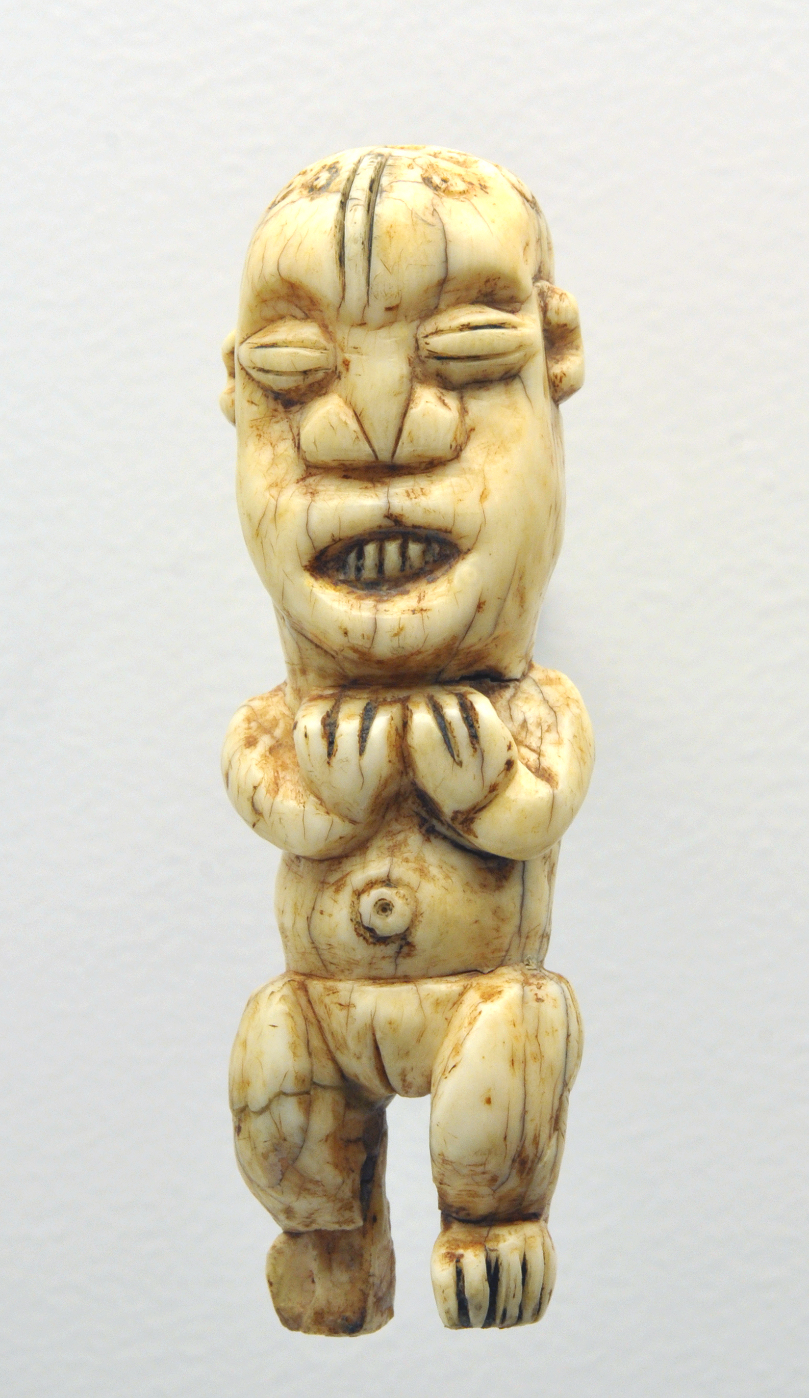 Amulet created earlier than the year 1901 by unknown in Western High Plateau, Cameroon.